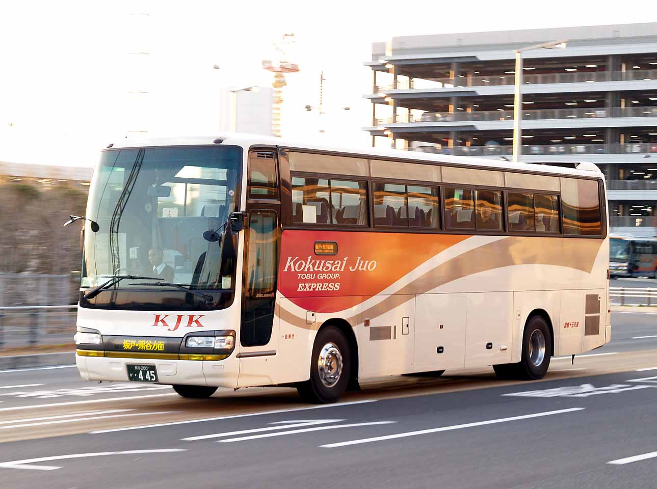 Kokusai Juo Kotsu airport limousine from Kumagaya, Saitama. Model: Hino Selega R GD (KL-RU1FSEA) License plate: STK200 KA-445 （熊谷200か・445） Place: Tokyo International Airport: Ota ward, Tokyo Japan